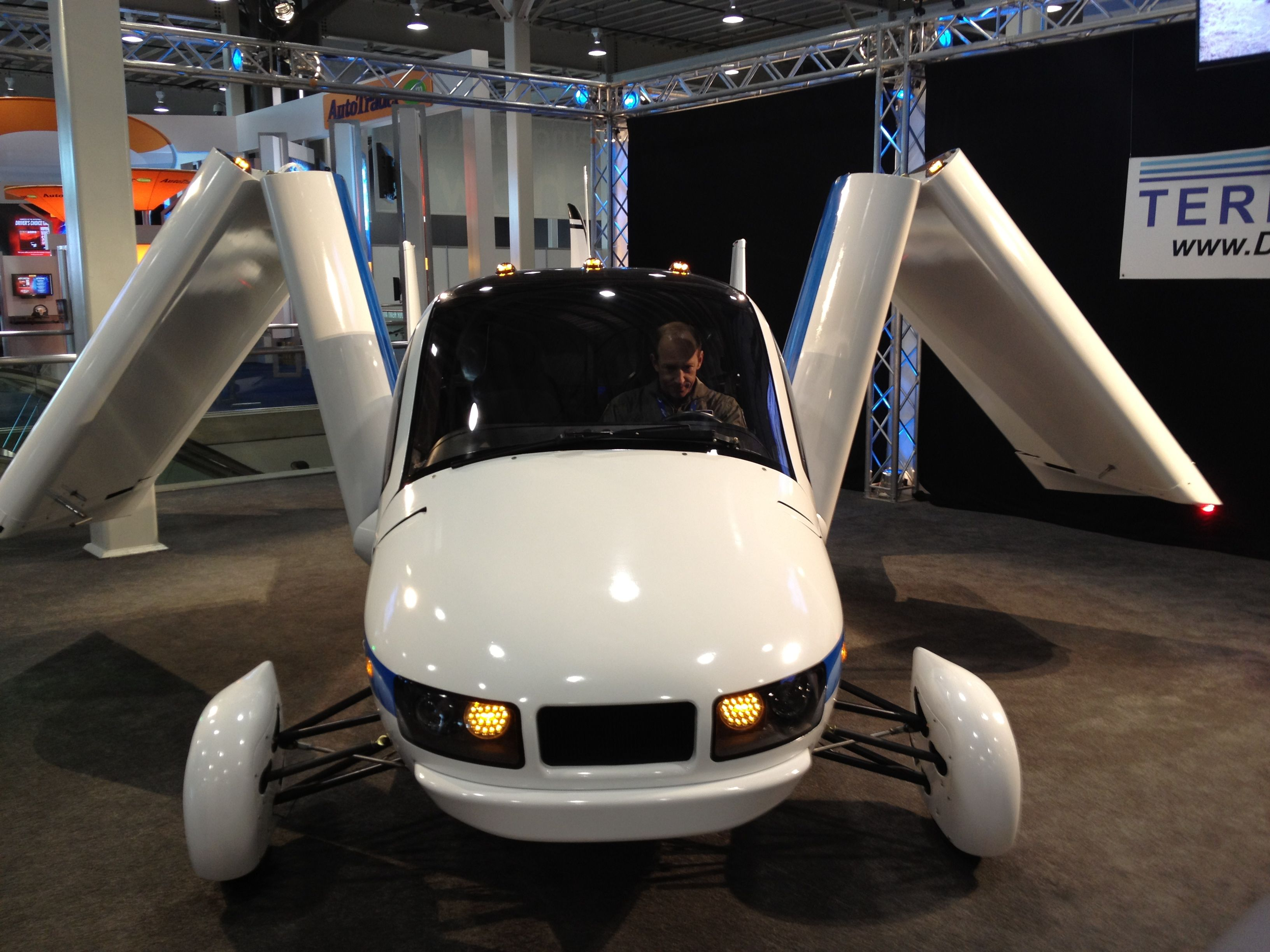 Possibly the most talked about "car" will be the Transition Production Prototype drivable airplane as it will be landing at the 2012 New York International Auto Show. This flying car is said to be capable of getting 35 mpg when on the road and up to 400 to 450 miles when in the air. The Terrafugia seats two people and also comes with four wheels, two wings, air bags, and a parachute if you purchase one, but they are not cheap as they have been priced at $279,000. Pictures courtesy of LotPro's own Steve Cypher.